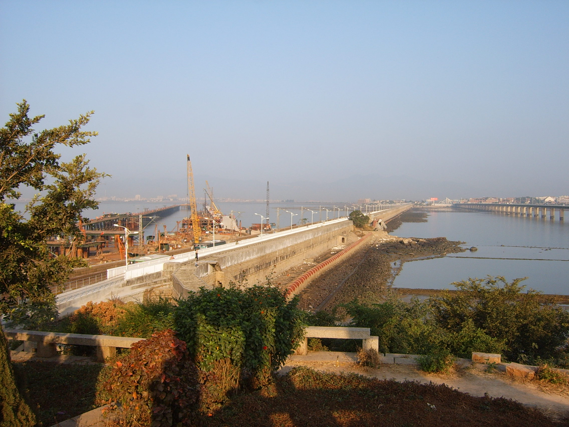 The Gao-Ji (Gaoqi-Jimei) Causeway, connecting Xiamen Island with the mainland, and two nearby bridges. This photo is taken looking northwest, from the Gaoqi section of Xiamen Island (Huli District) toward the mainland (Jimei District). The Gao-Ji Causeway is in the middle; the Xiamen Bridge, parallel to the causeway, is on the right; the new Xinglin Bridge (still under construction, in this photo) is on the left.